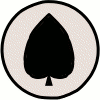 Divisional patch (Ace of Spades) for the British 12th (Eastern) Division.